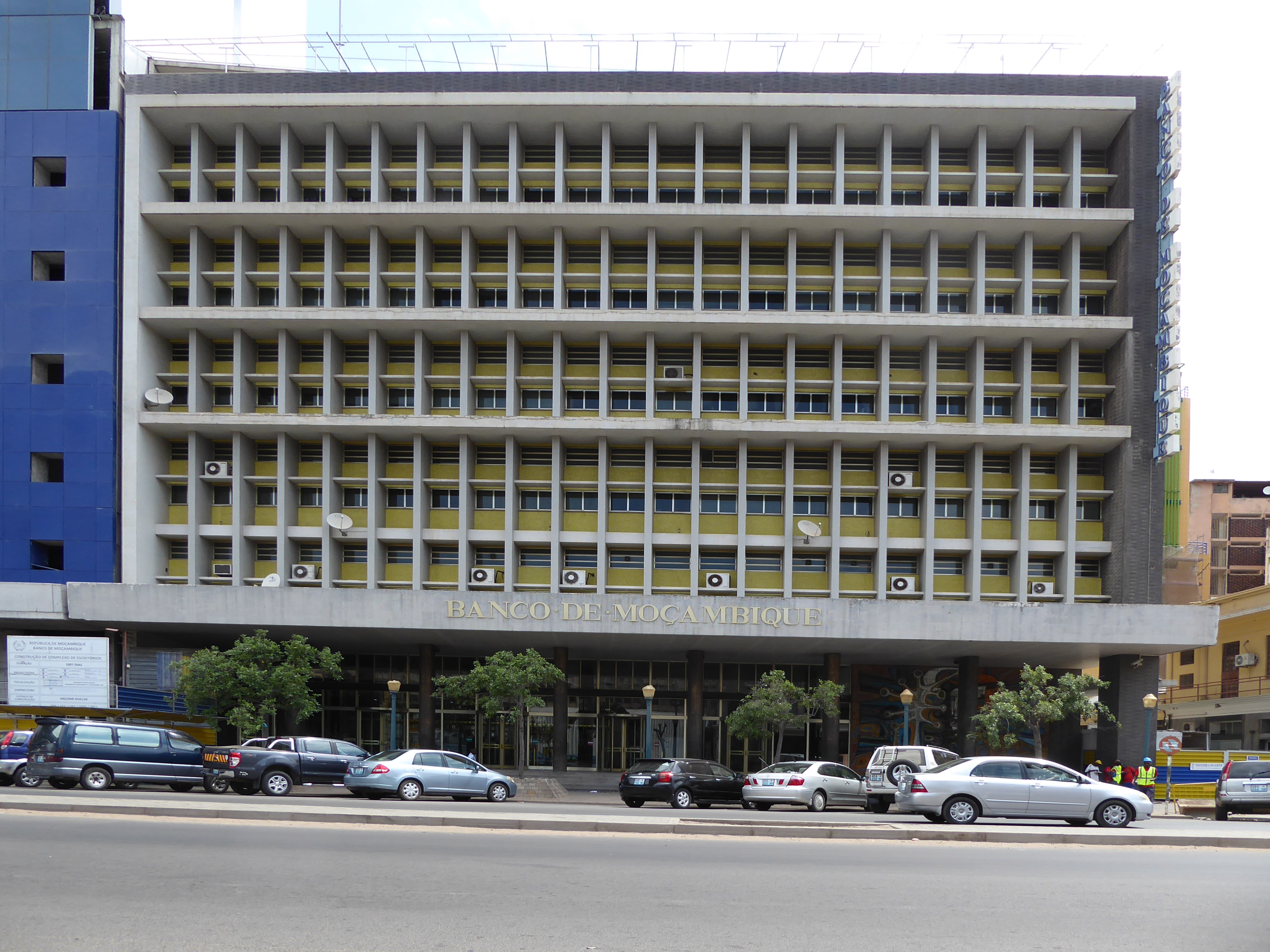 The old building of the Banco de Moçambique (Mozambique's Central Bank), Avenida 25 de Setembro, Maputo, Mozambique